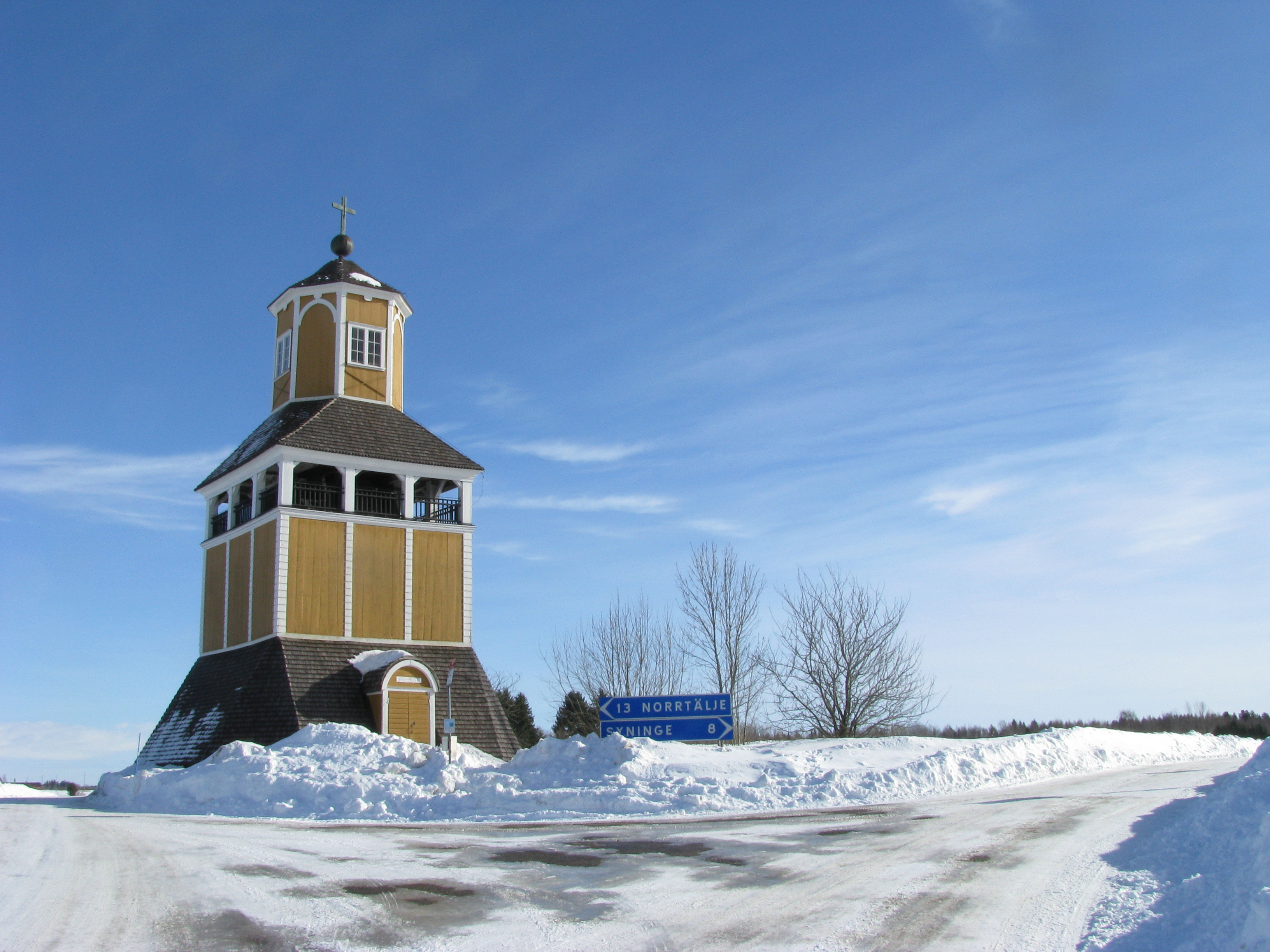 Church steeple in Lohärad